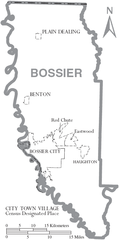 Map of Bossier Parish, Louisiana, United States with municipal boundaries